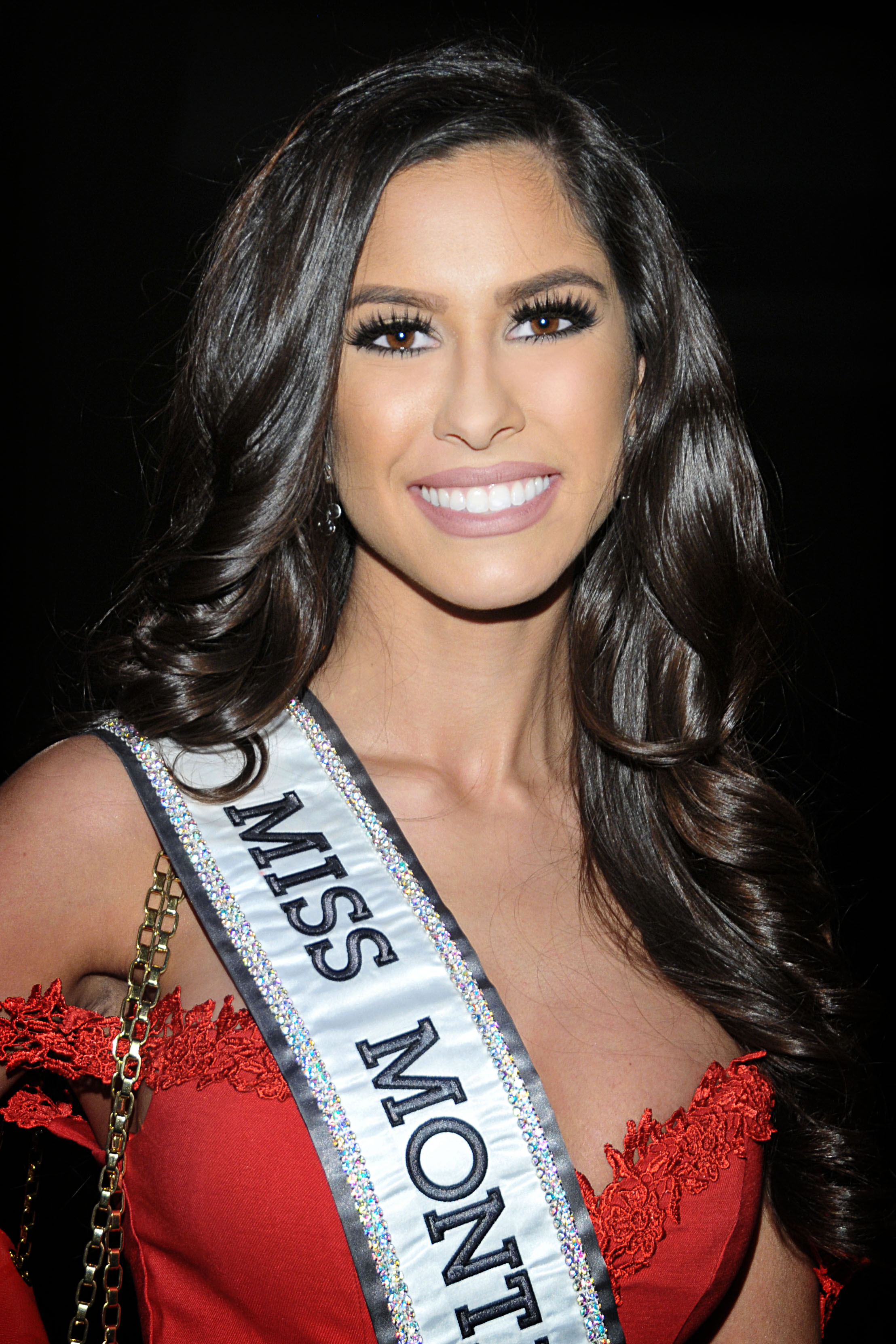 Sibahn Doxey, Miss Montana USA 2016, Long Beach, California on December 6, 2016 - Photo by Glenn Francis of